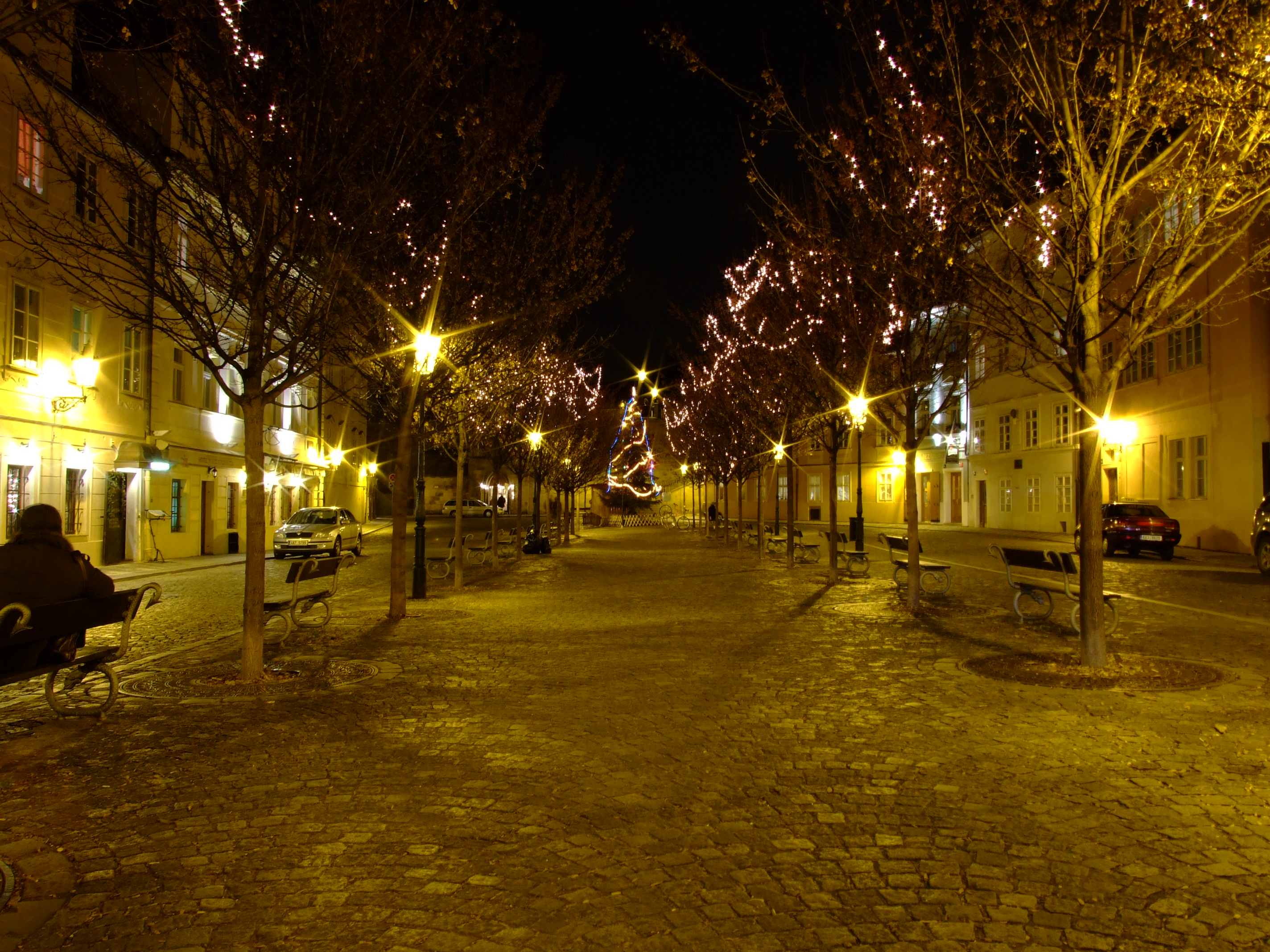 Prague Kampa